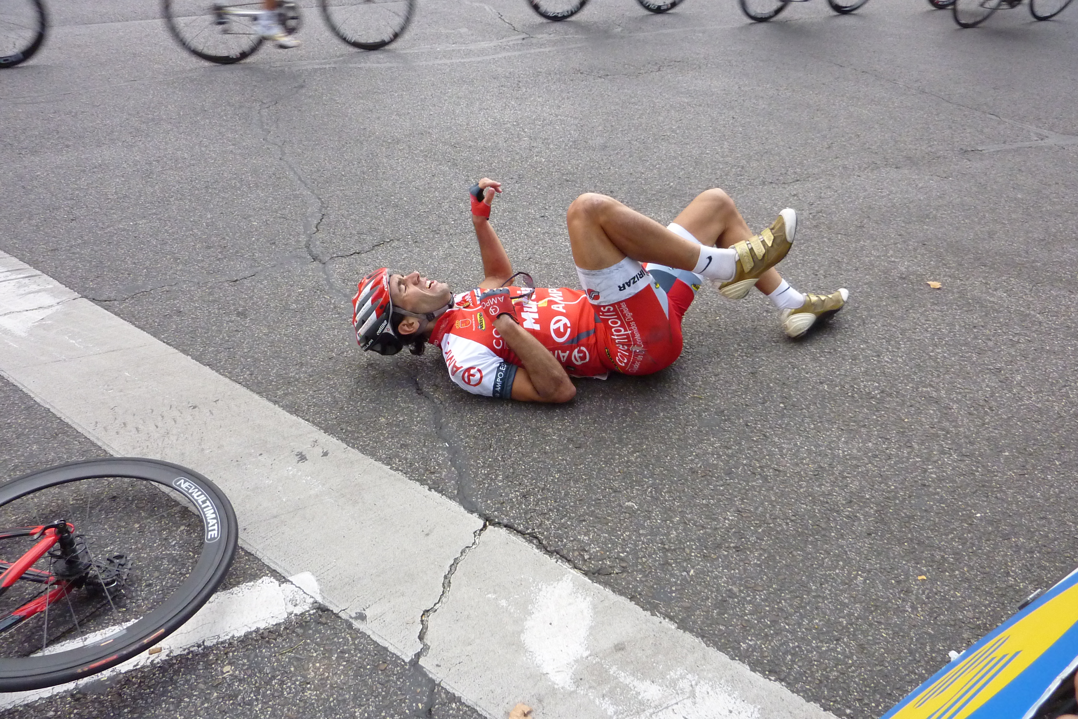 Jose Pacheco after a crash about 300 m. Before the finish of the 21st stage of the Vuelta de Espana in 2009 .